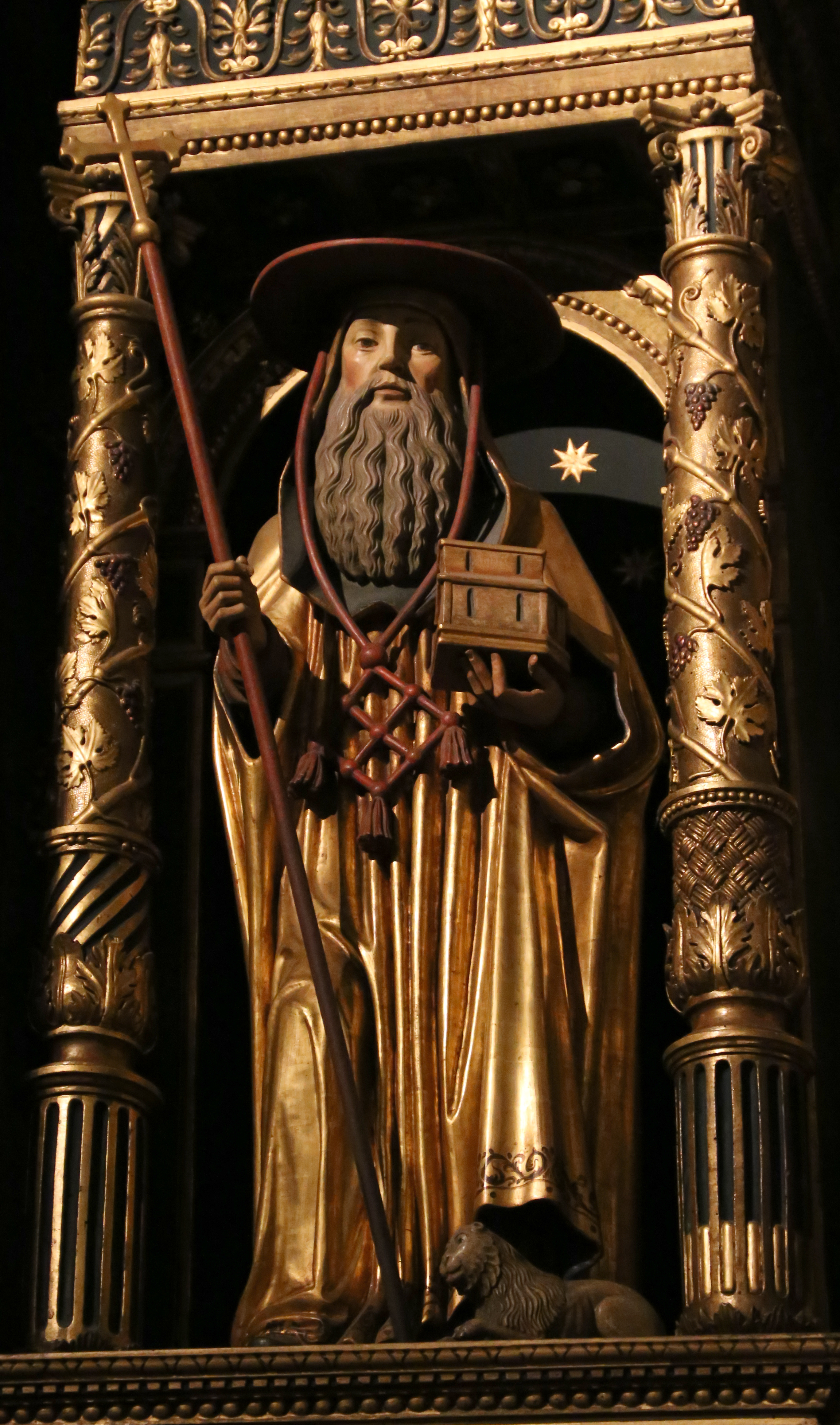 Chiesa di Sant'Andrea (Asola)